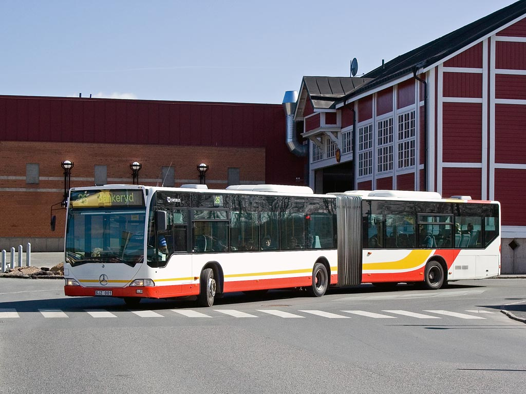 Till "JLT" bussbild